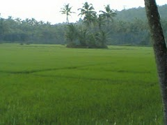 Nature's Beauty : A scene of Kurunthaaya Vayal of Kalliasseri from Vadeswaram Hill of Aroli